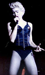 Wembley Stadium Londen Engeland juli '87